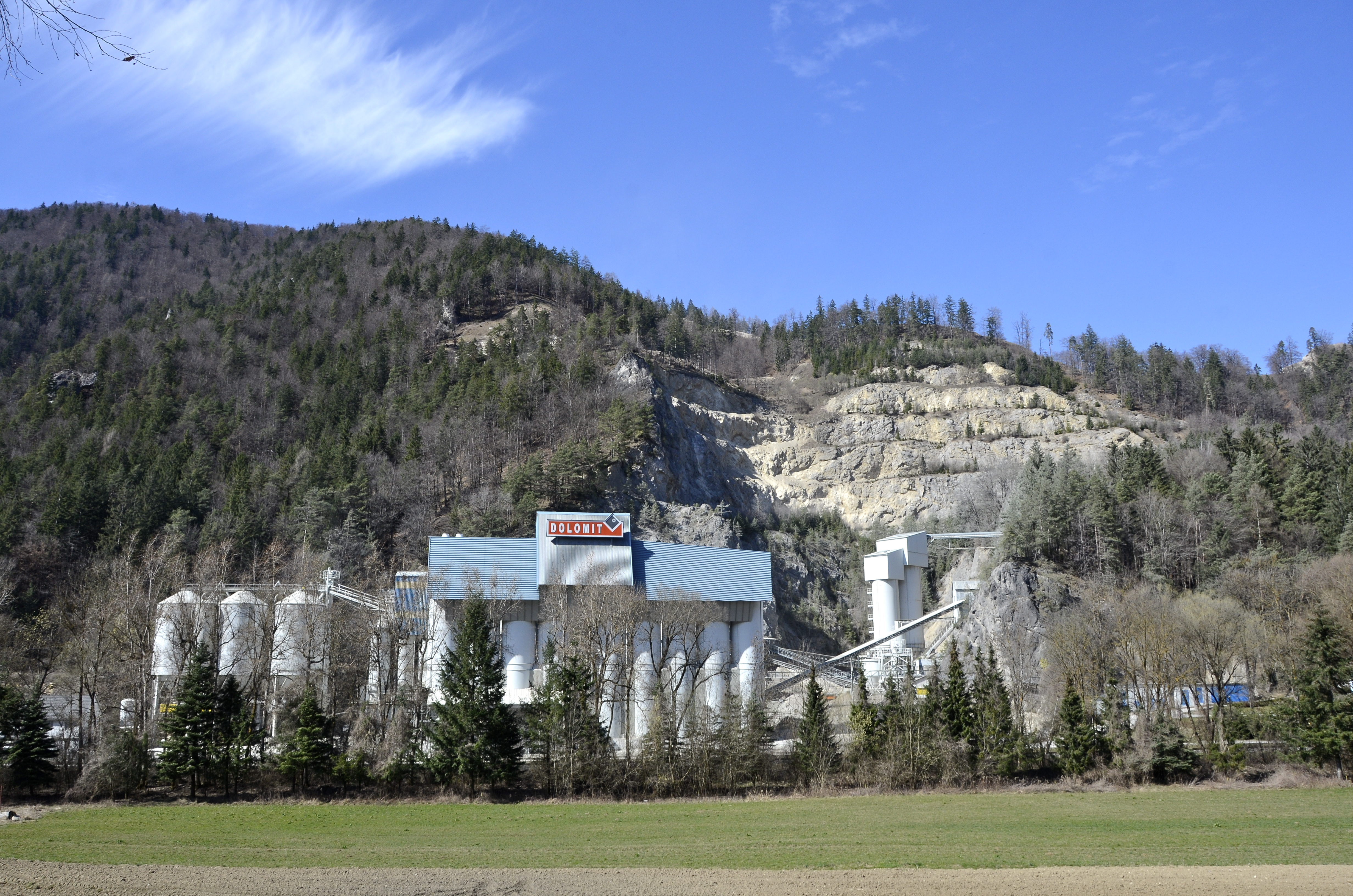 Dolomite mining in Gutschen, market town Eberstein, district Sankt Veit, Carinthia, Austria, EU